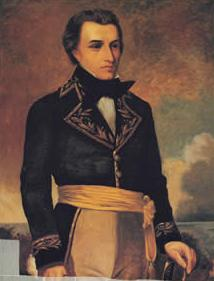 Painted by Pablo W. Hernández. Located at the Elliptical room of the Venezuelan National Assembly. Painter died well over 100 years ago. Website with pic is here